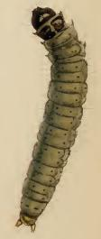 Stainton’s Natural History of the Tineina (1855–1873): Mirificarma mulinella